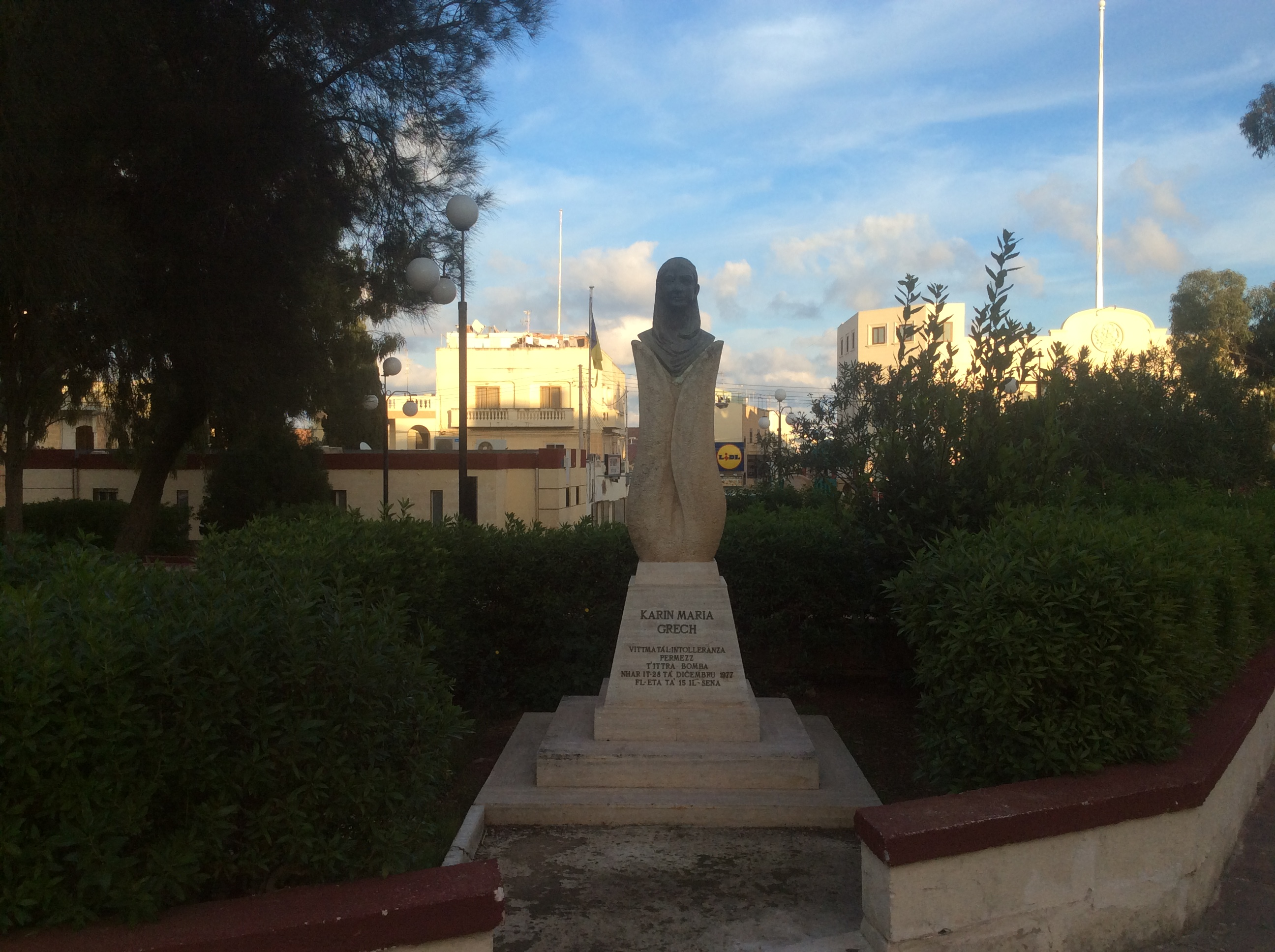 Karin Grech Garden in San Gwann Malta